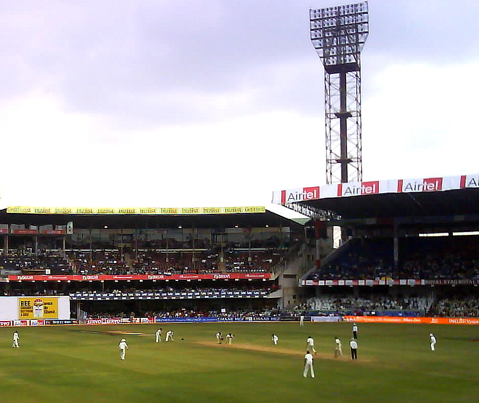 India vs Pakistan Test match cricket at the Chinnaswamy stadium, Bangalore. Final day's play that ended in an exciting draw.